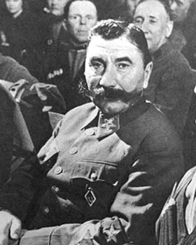 Semyon Mikhailovich Budyonny, (Семён Михайлович Будённый), Marshal of the Soviet Union